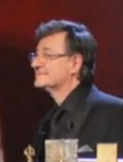 Ion Caramitru hosting 2013 UNITER Awards in Romania